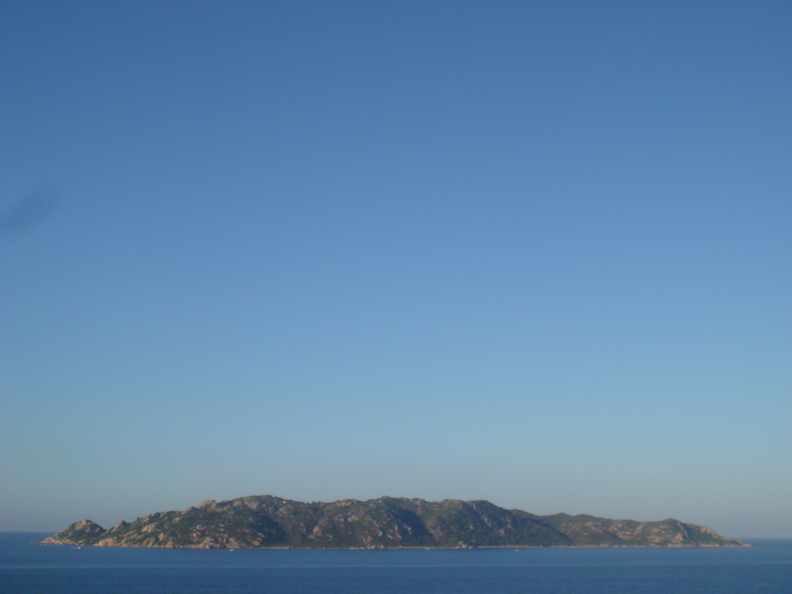 Molara island (Olbia, Italy). Picture by Stefano Bolognini.